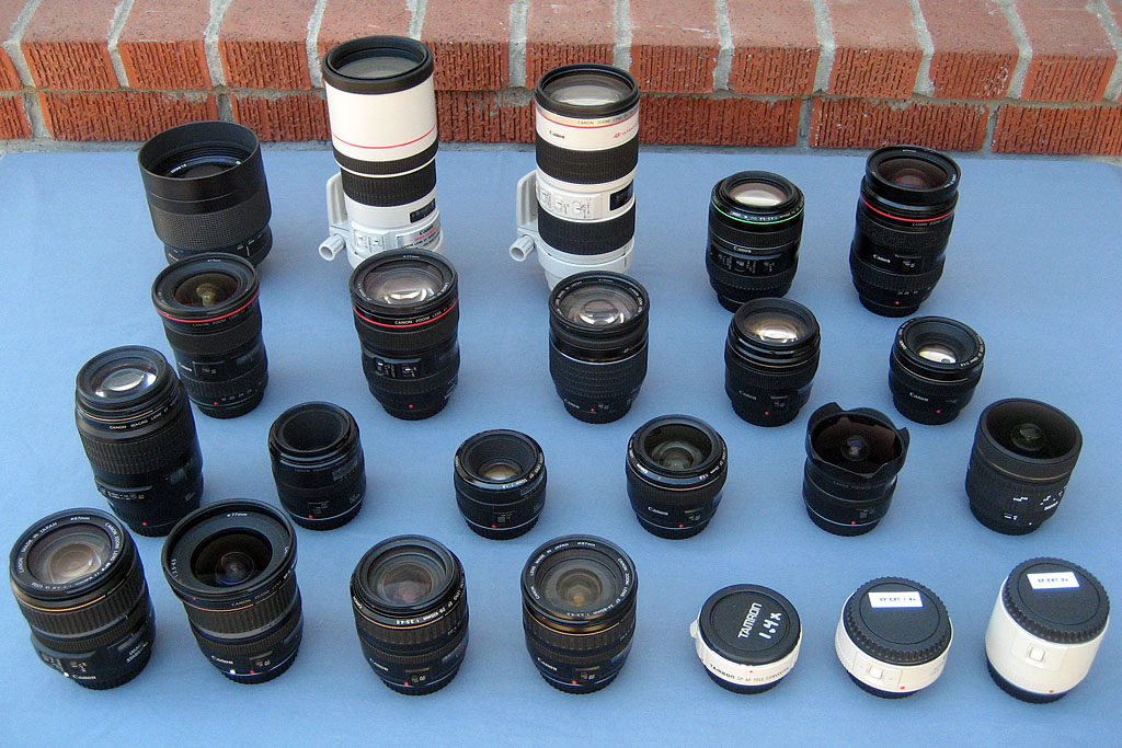 It took years to accumulate these lenses. And a lot of money!